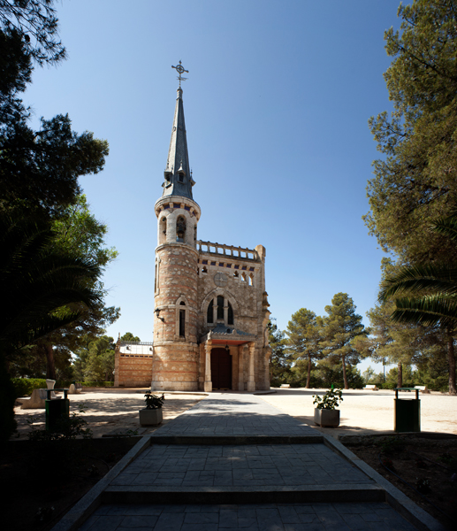 Ermita; Huerta de ValdecarÀbanos, Castilla la Mancha, Toledo, Spain; Fachada; ref: PM_080420_E_Huerta_de_Valdecarabanos; Ermita de la Virgen del Rosario de Pastores; Jesús Carrasco-Muñoz y Encina; © Paul M.R. Maeyaert; ; Cultural heritage; Cultural heritage/Modernism; Cultural heritage/UNESCO World Heritage Site; Europeana; Europe/Spain/Huerta de ValdecarÀbanos (Toledo)